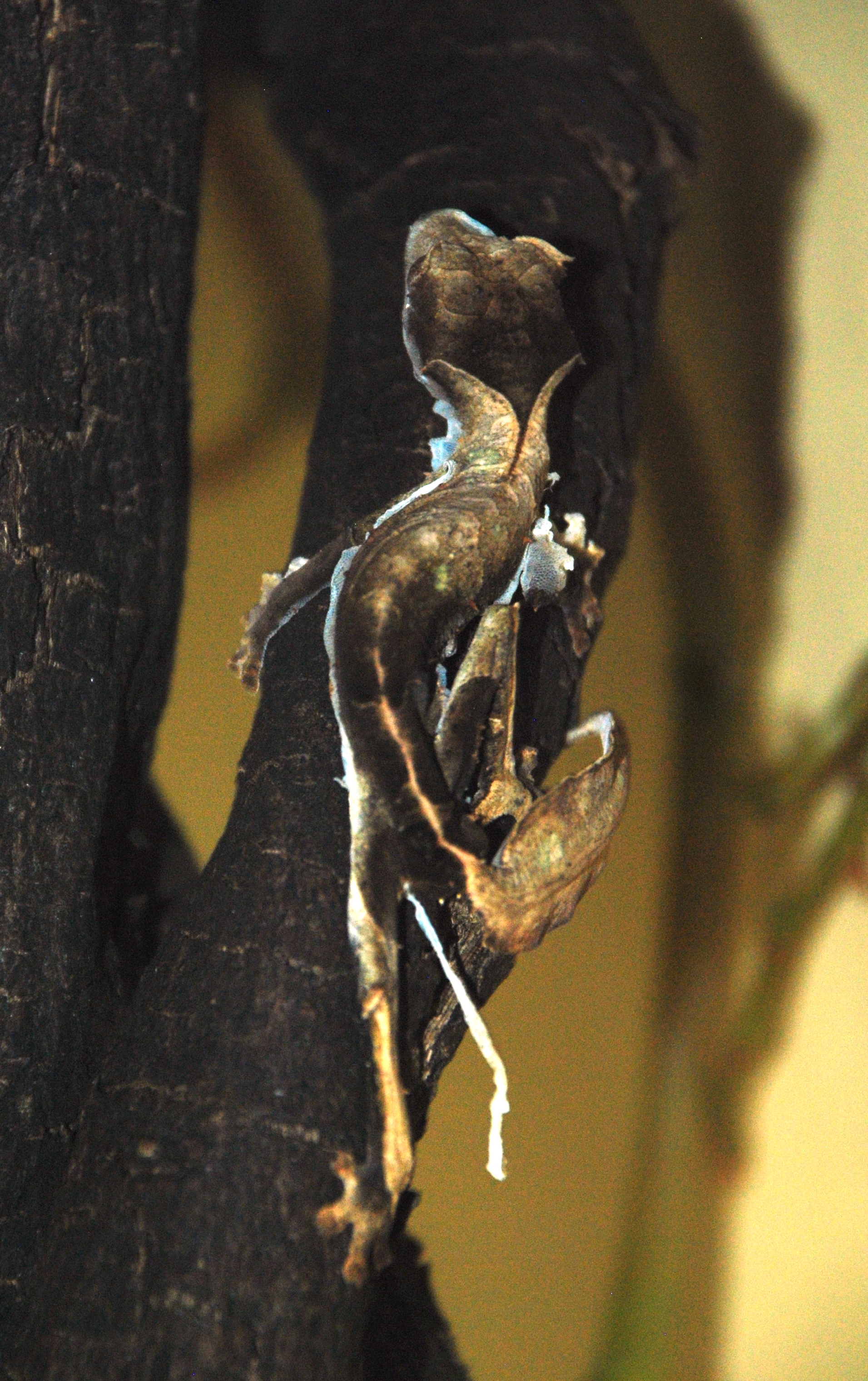 Reptiles of National Zoo in Washington, D.C. - Fantastic Leaf-tailed Gecko (Uroplatus phantasticus)